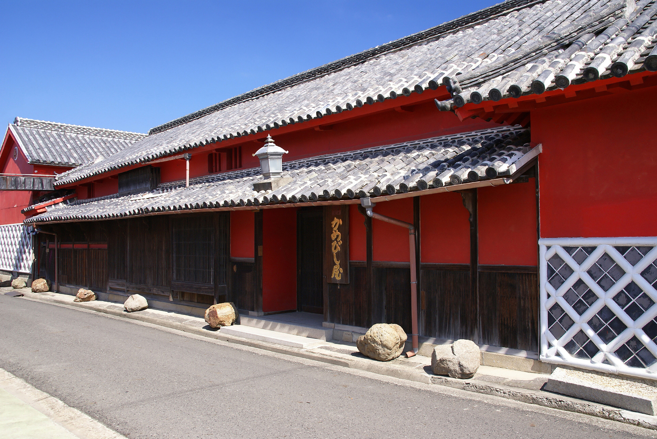 This house is a soy sauce factory at Kagawa prefecture in Japan. The name is Kamebishi-ya which was established in 1753. And this house is a Cultural heritage(Relic) of Japan.